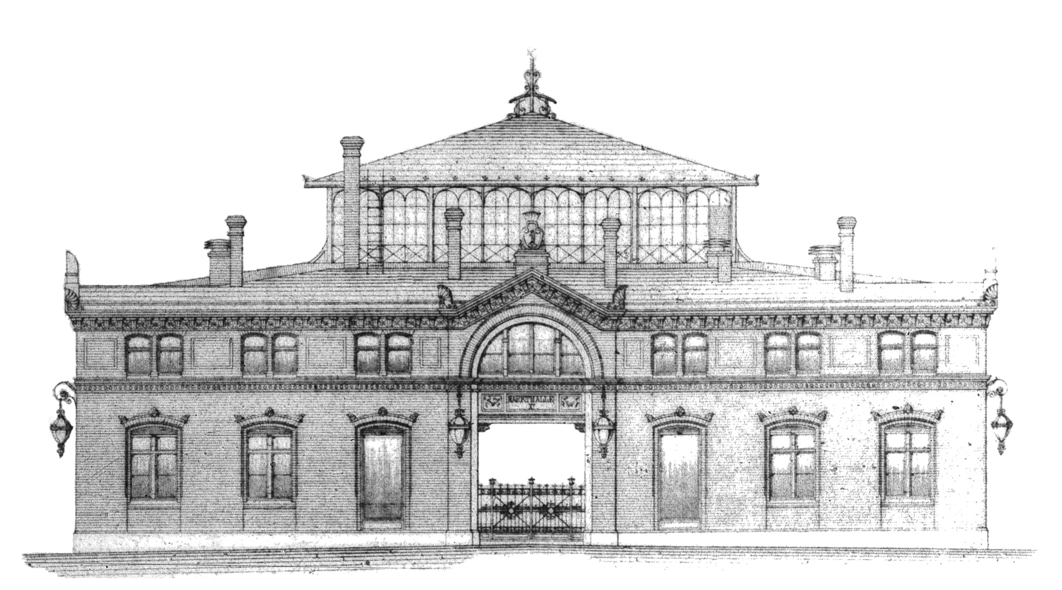 Berlin - market hall XI, facade Marheineke Platz